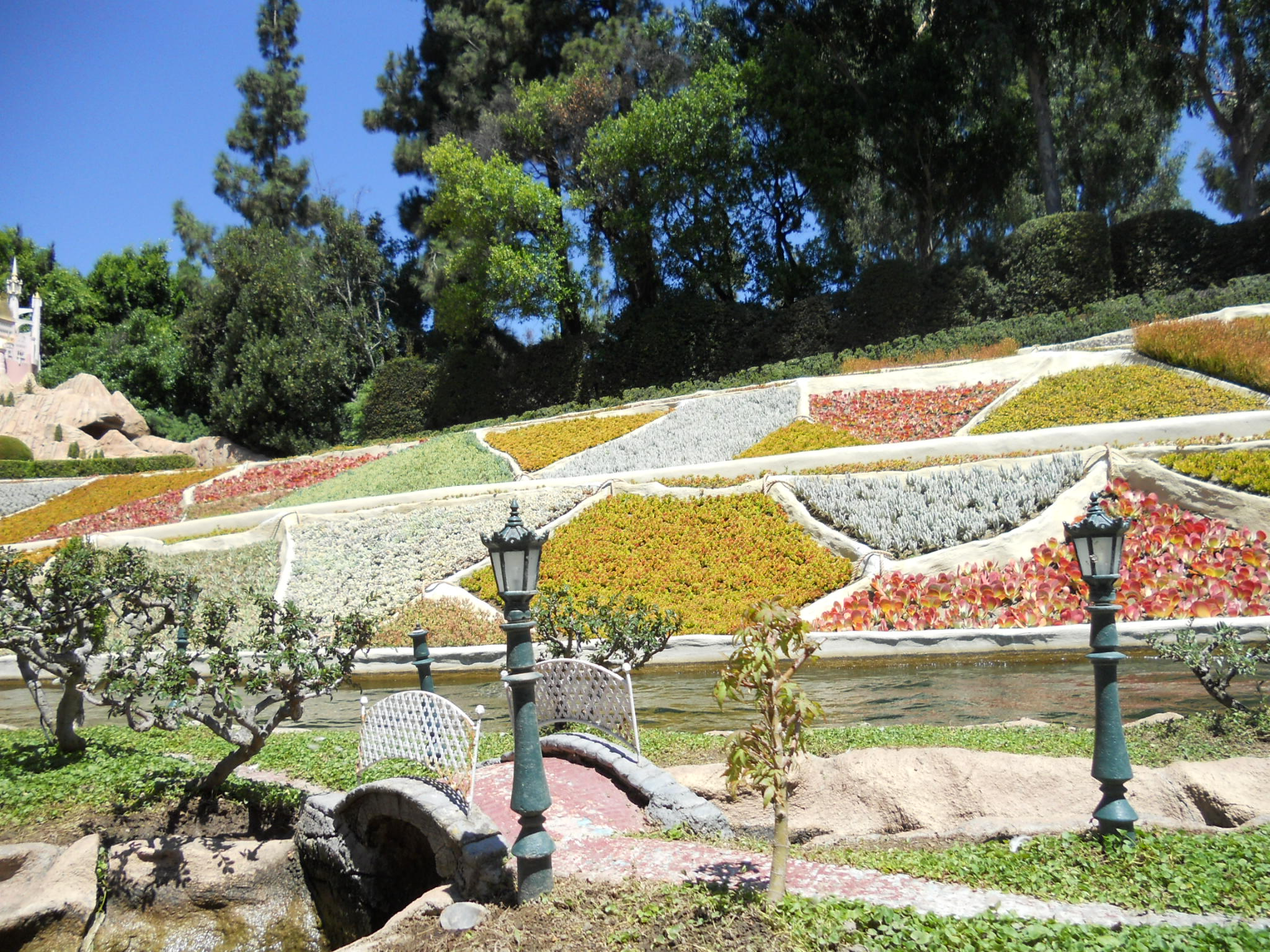 A bridge. Backgroung: The " Giant's patchwork quilt " (from Lullaby Land)